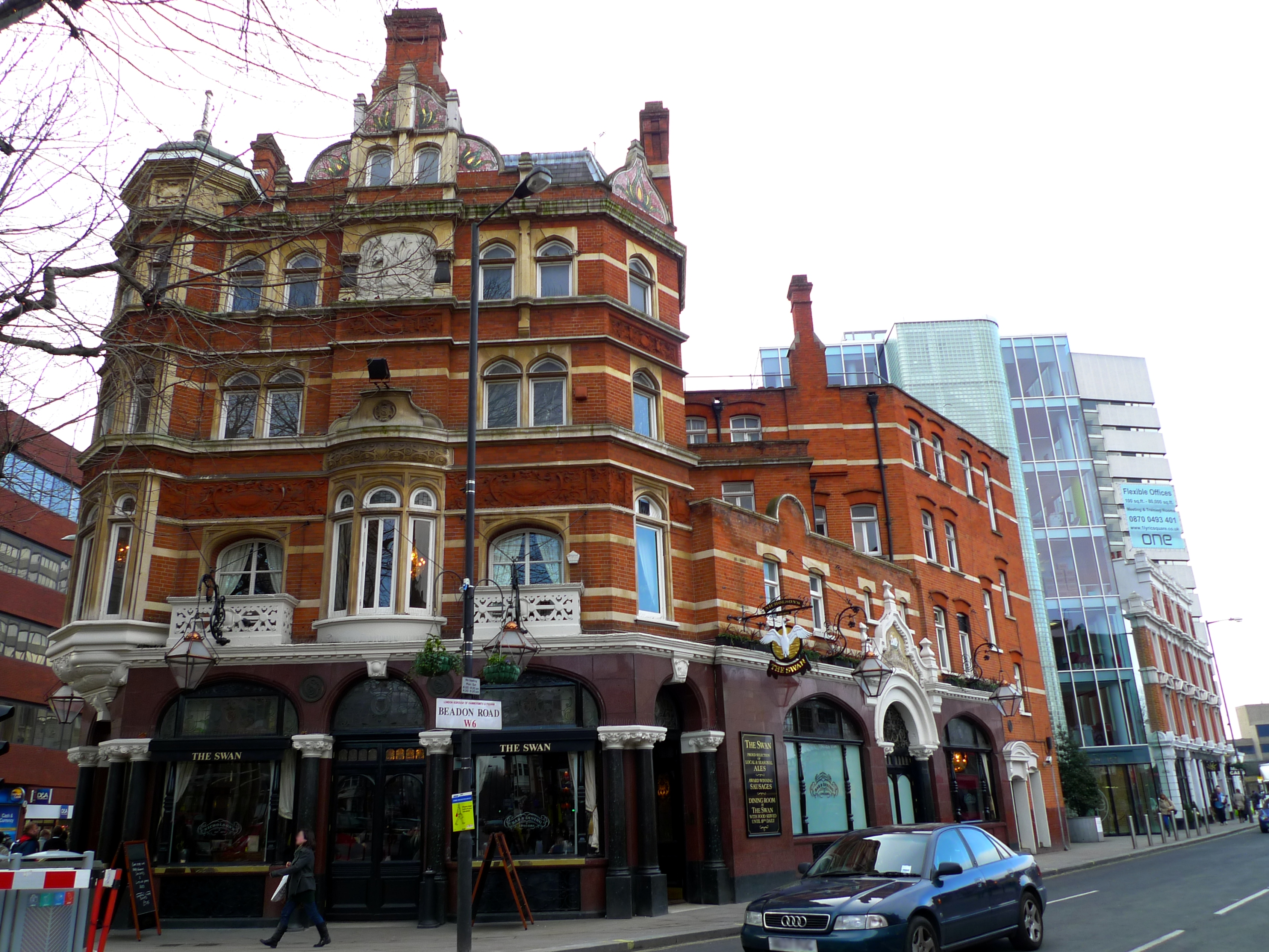 Formerly an Edwards bar, this grand building opposite Hammersmith Broadway centre has now reverted to its original name. Address: 46 Hammersmith Broadway. Former Name(s): Edwards; The Swan Hotel. Owner: Mitchells and Butlers [Nicholson's] (website); Mitchells and Butlers [Edwards] (former). Links: Randomness Guide to London Fancyapint Pubs Galore Beer in the Evening Beer in the Evening (Edwards) Pubs History (history)